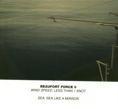 Beaufort scale 0 image